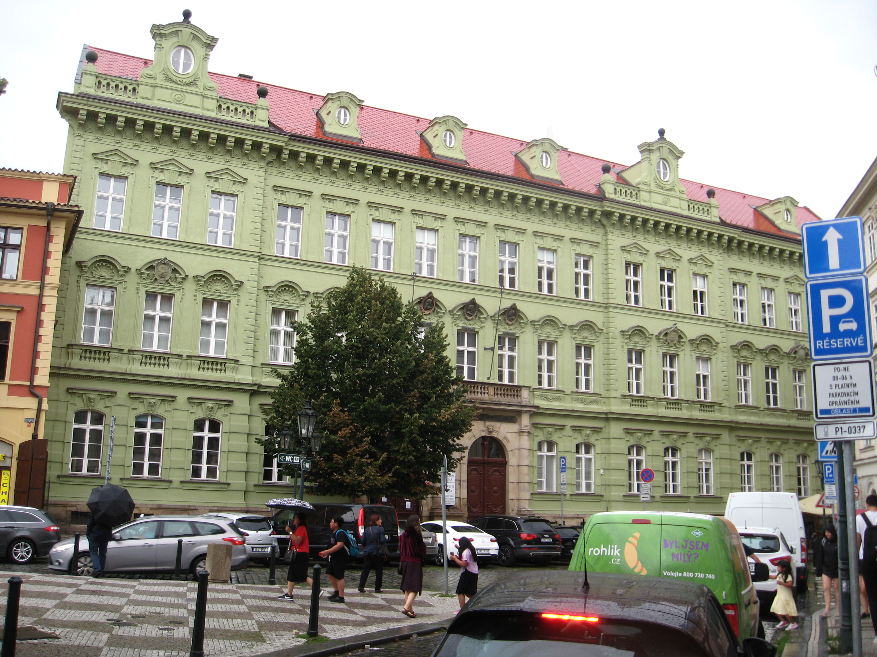 School building, Uhelný trh (engl. The Coal Market). House Nr. 4.